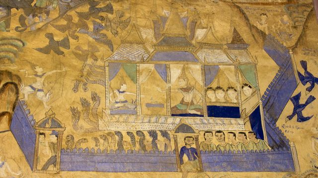 This mural detail is from Wat Photaram located in Maha Sarakham, Thailand. This wat was built approximately one hundred years ago and has murals painted on all four outer walls. On the left side wall all the murals show scenes from Sang Sinxay. This particular mural detail shows Sinxay, the hero, playing chess with a naga king who has married the daughter of his Aunt Soumountha who was forcefully married to a Nyak Koumphan. In this mural detail you can also see khuts who were summoned by Sinxay to help fight the nagas after the king, who had bet his kingdom, became very angry after Sinxay won three games in a row..